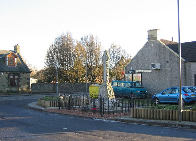 Avonbridge, near Falkirk, Scotland; war memorial in the centre foreground